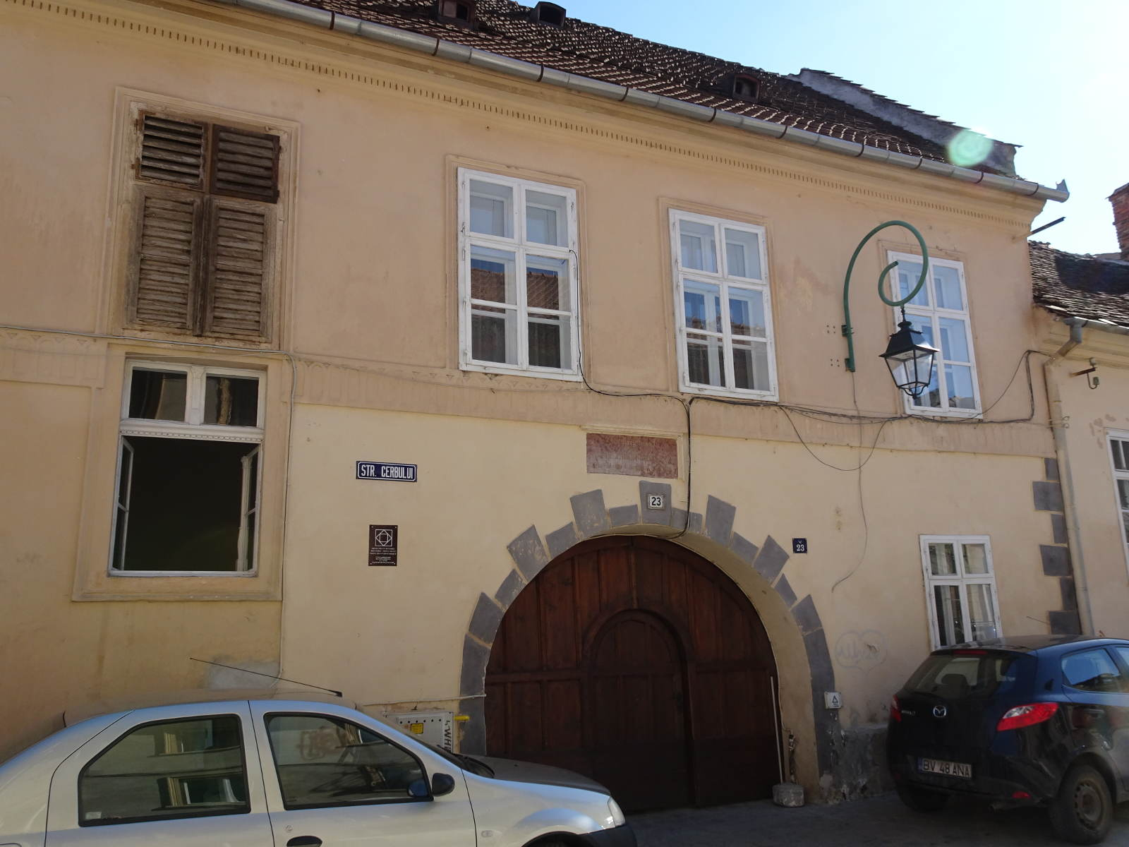 Strada Cerbului in Brasov, house number 23, historic monument